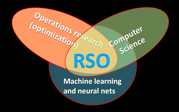 Reactive Search Optimization (RSO), at the boundary between Computer Science, Optimization, and Machine learning